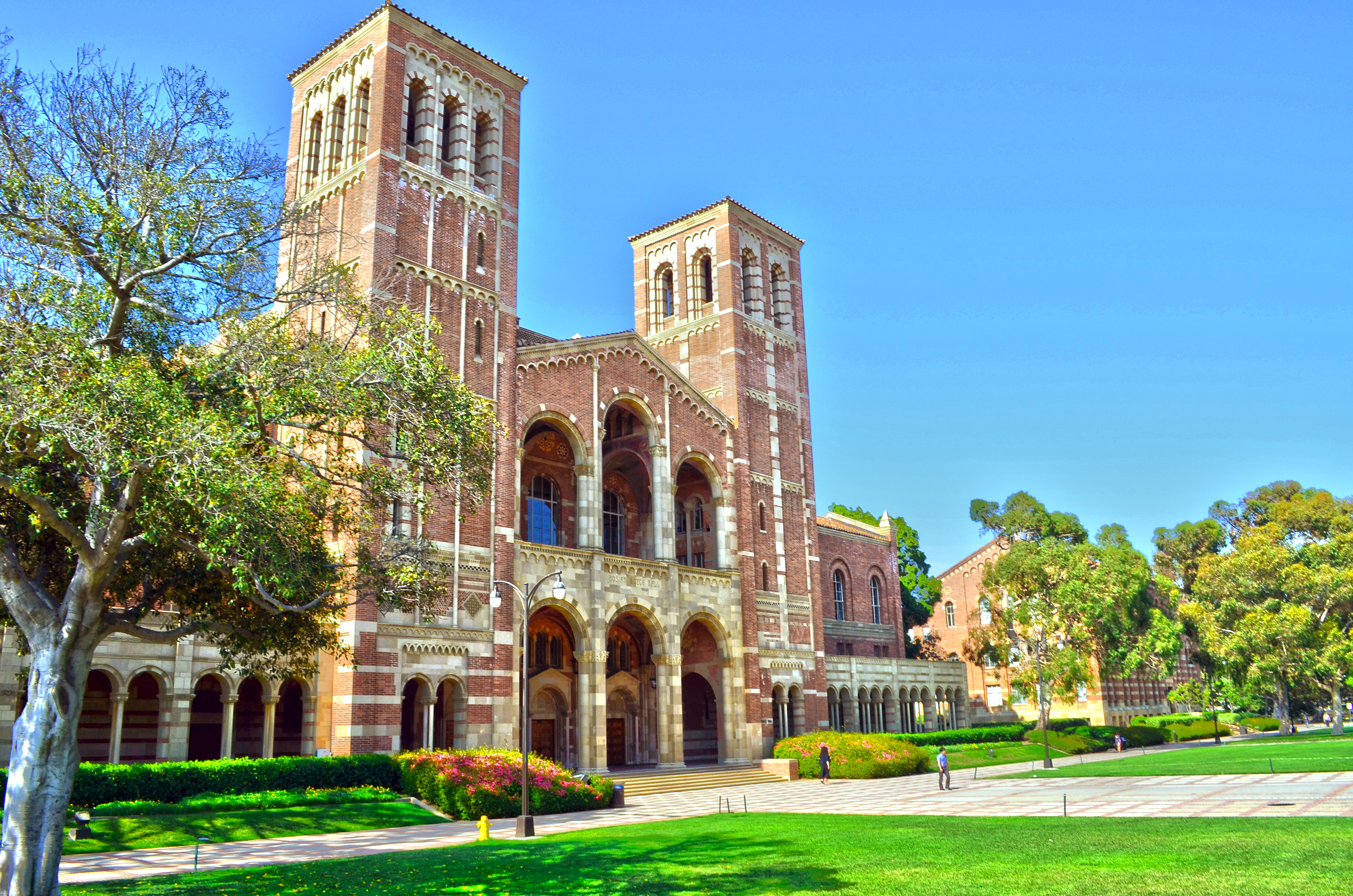 Side of Royce Hall in HDR image. Royce Hall is UCLA's iconic landmark building. Built in 1929, Royce Hall was patterned after the church of Sant'Ambrogio in Milan, Italy. The auditorium houses an antique pipe organ and hosts a wide variety of renowned performing artists. Luminaries who have appeared on stage include Albert Einstein, John F. Kennedy, Frank Sinatra, Ella Fitzgerald, and Geroge Gershwin.